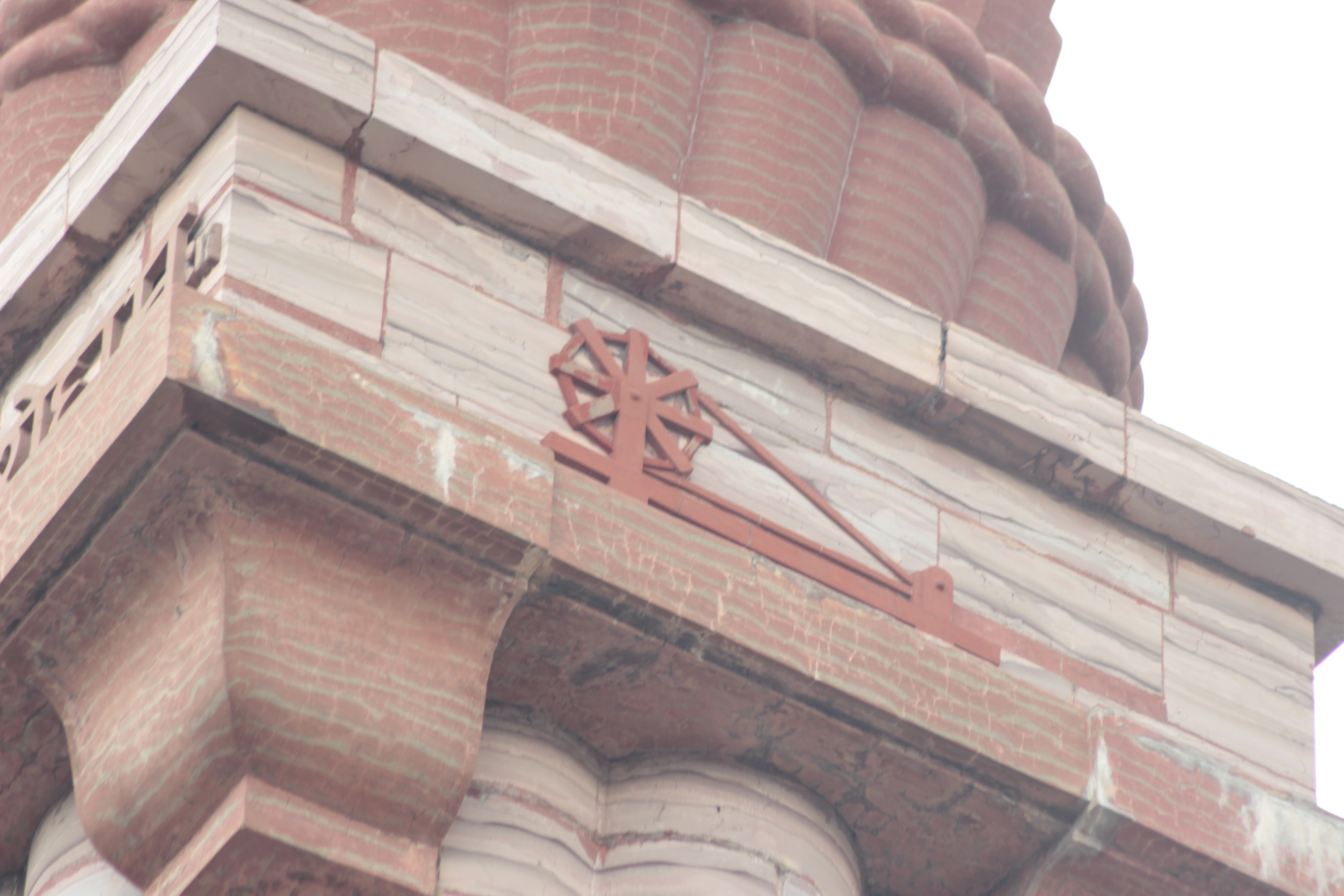 The Gandhi Hill is a hill in Vijayawada, situated behind the Vijayawada railway station in the Tarapet area. A Gandhi Memorial, built on this hill, is the first in the country to have seven stupas